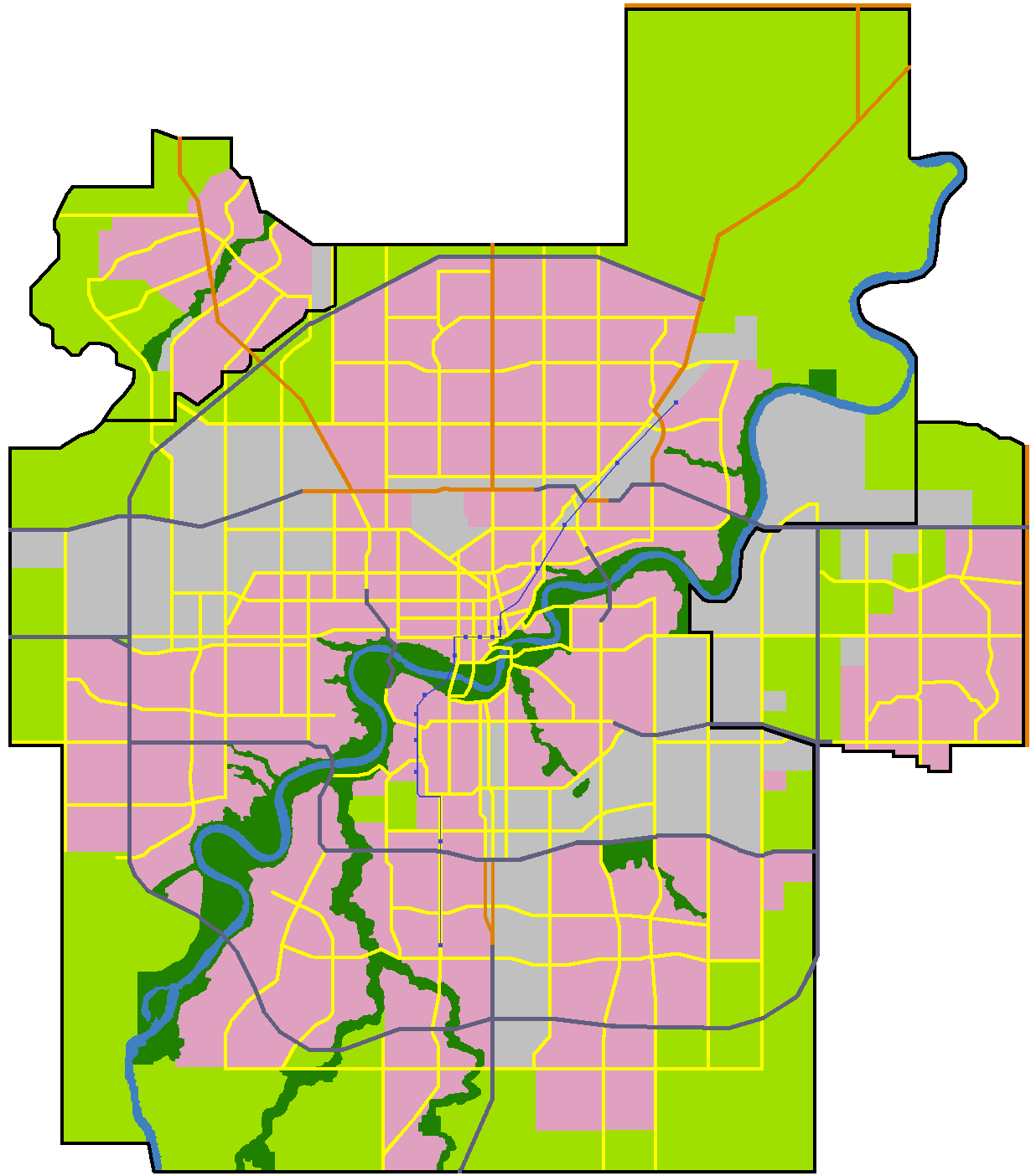 Map of Metro Edmonton in November 2011, showing major freeways, roads and LRT